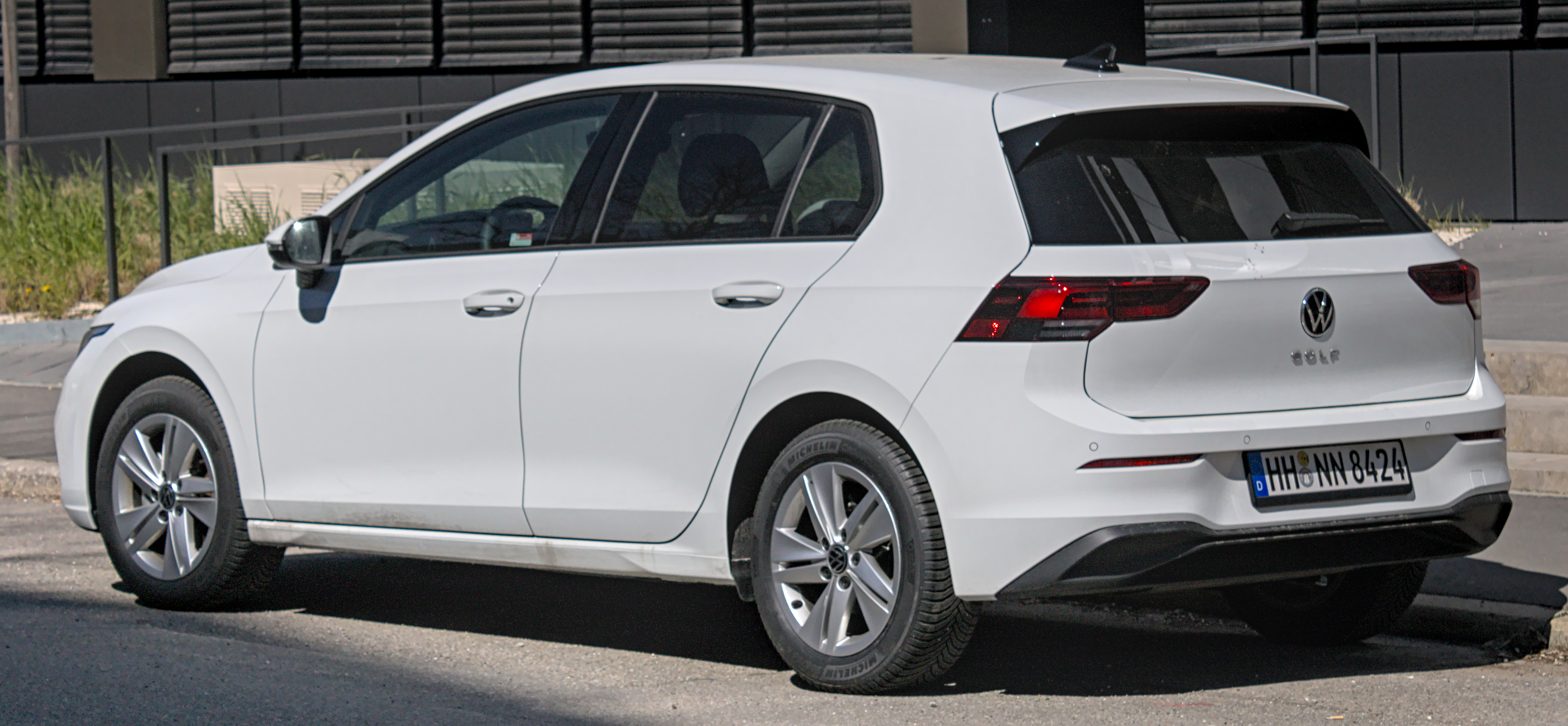 Volkswagen_Golf_VIII in Stuttgart-Vaihingen